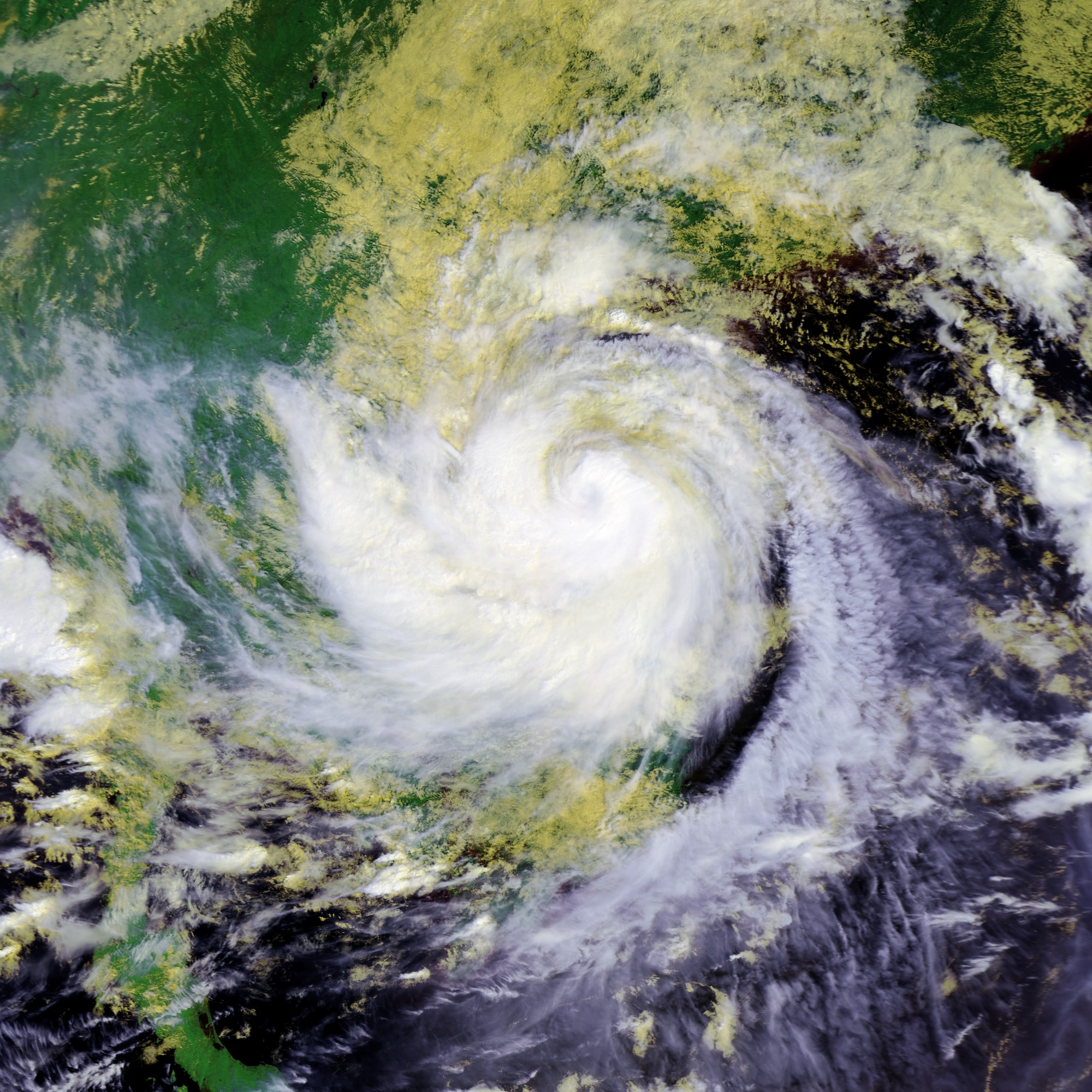 Severe Tropical Storm Lekima on October 3 at approximately 0306 UTC. This image was produced from data from NOAA-17, provided by NOAA.